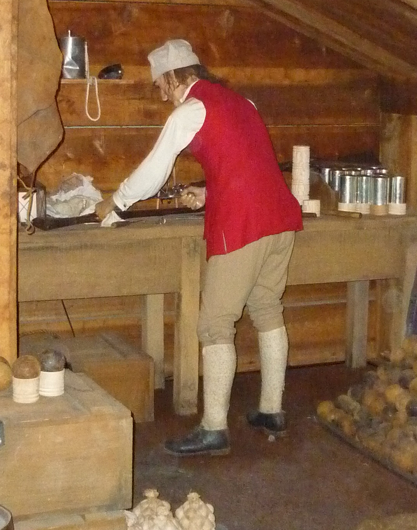 18th century British Army gunsmith, Fort Pitt Museum.